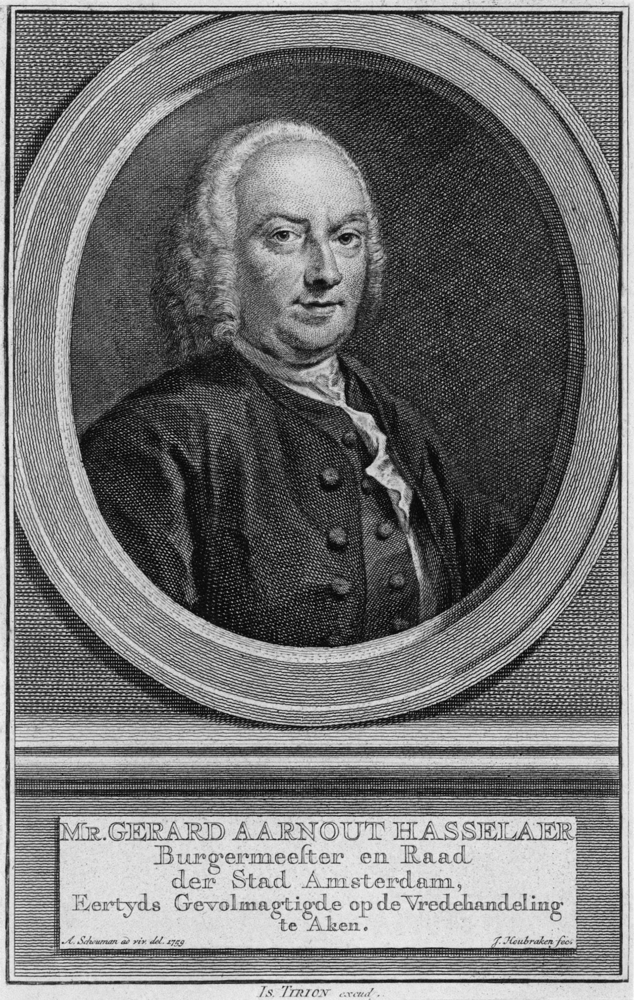 Text from source: Gerard Aarnout Hasselaar (1698-1766). Mayor of Amsterdam 1748-1765. Size: 169x106 mm. Source: Collection drawings and prints. Creators: J. Houbraken (engraver) and A. Schouman (drawings). File number: 010097008514